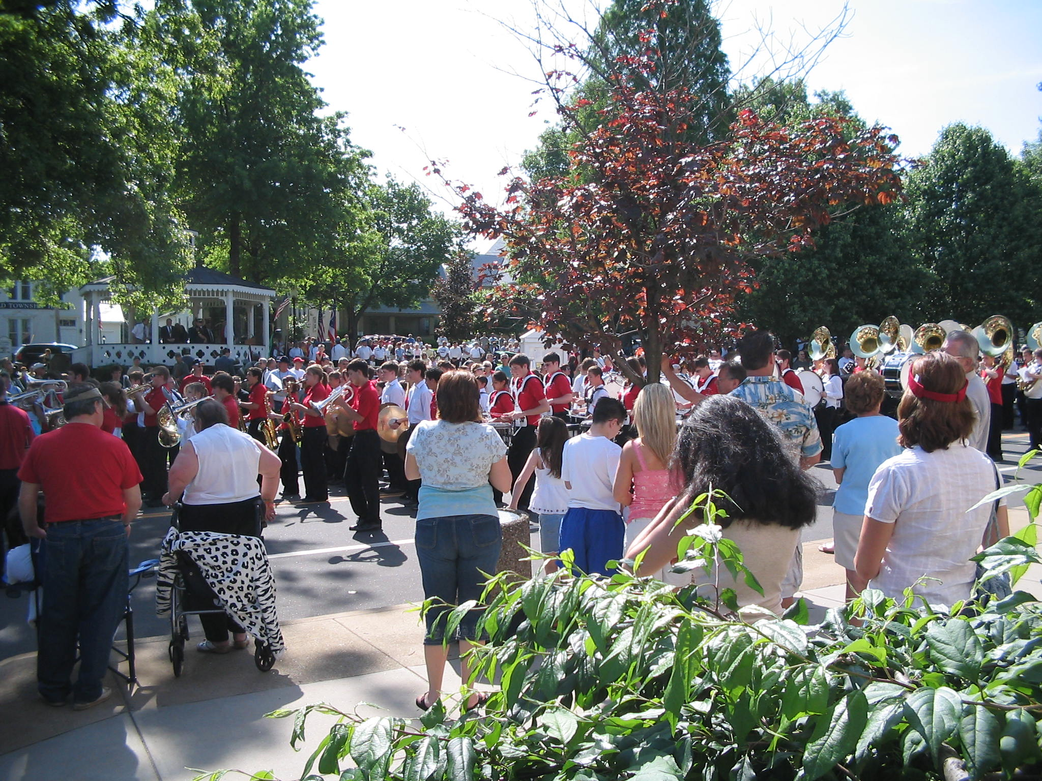 Memorial Day in Canfield